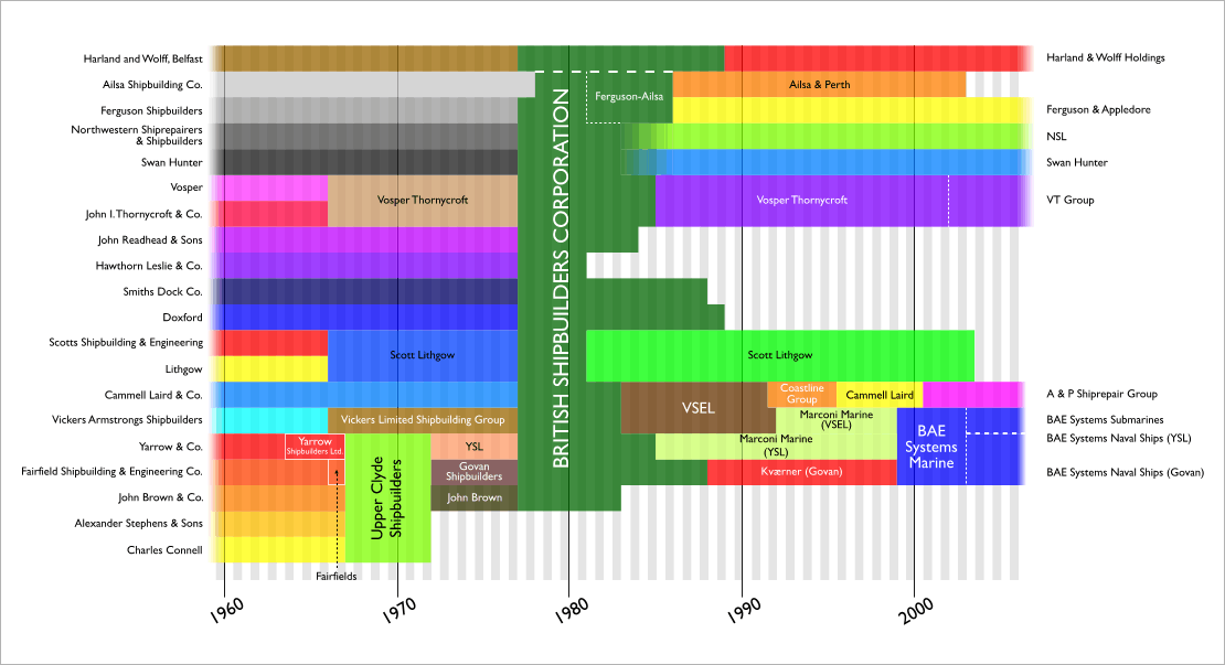 Schematic evolution of British Shipbuilders Corporation and component assets. If you have a change to make, please contact me and let me do it for you - it would be easier and of much better quality if I edit the original vector file, rather than you alter the *.png export. Created by me, Emoscopes 17:02, 28 July 2006 (UTC), using XaraX software